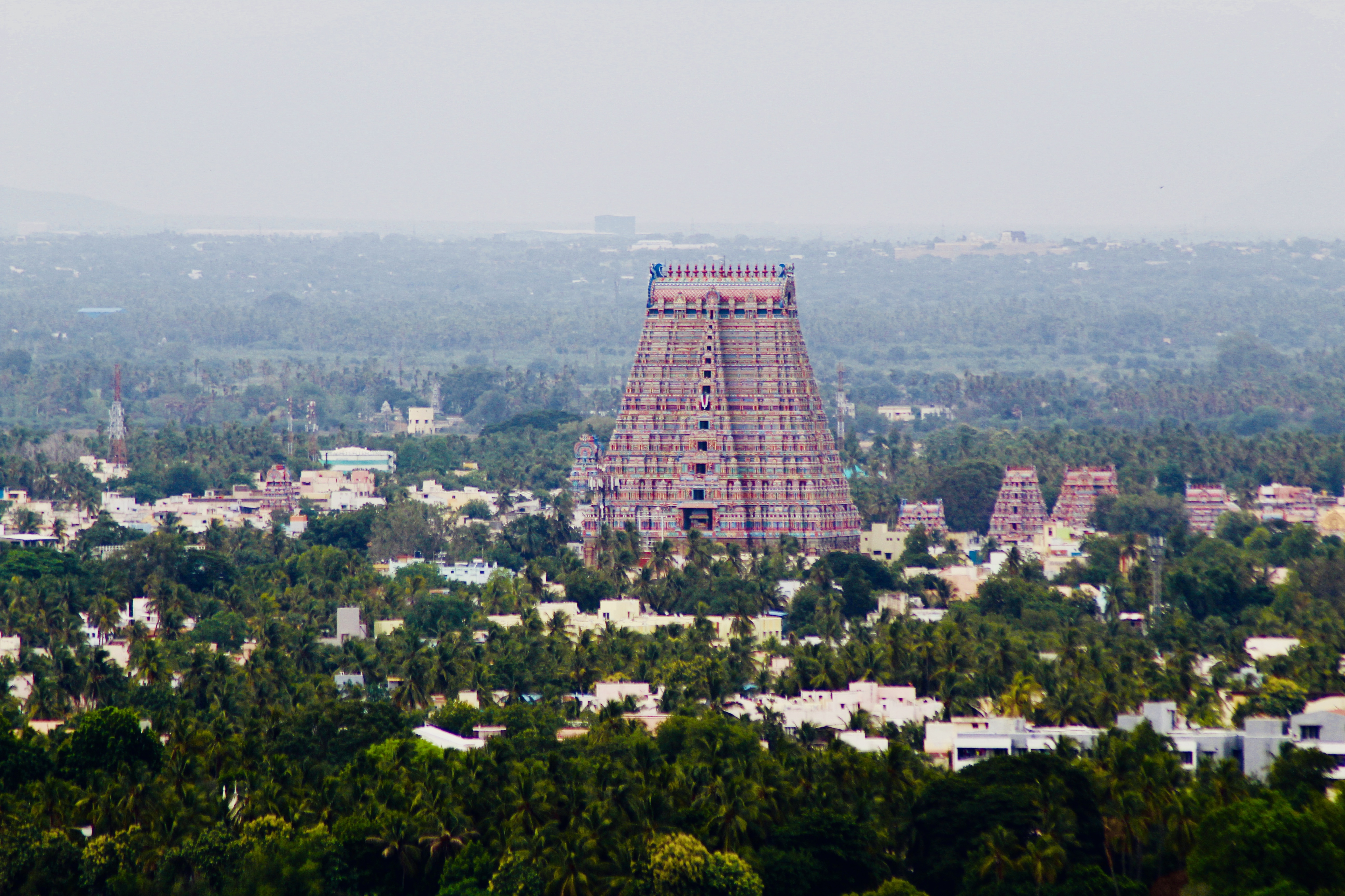 Aerial view of Sri Rangam temple near Tiruchirapalli